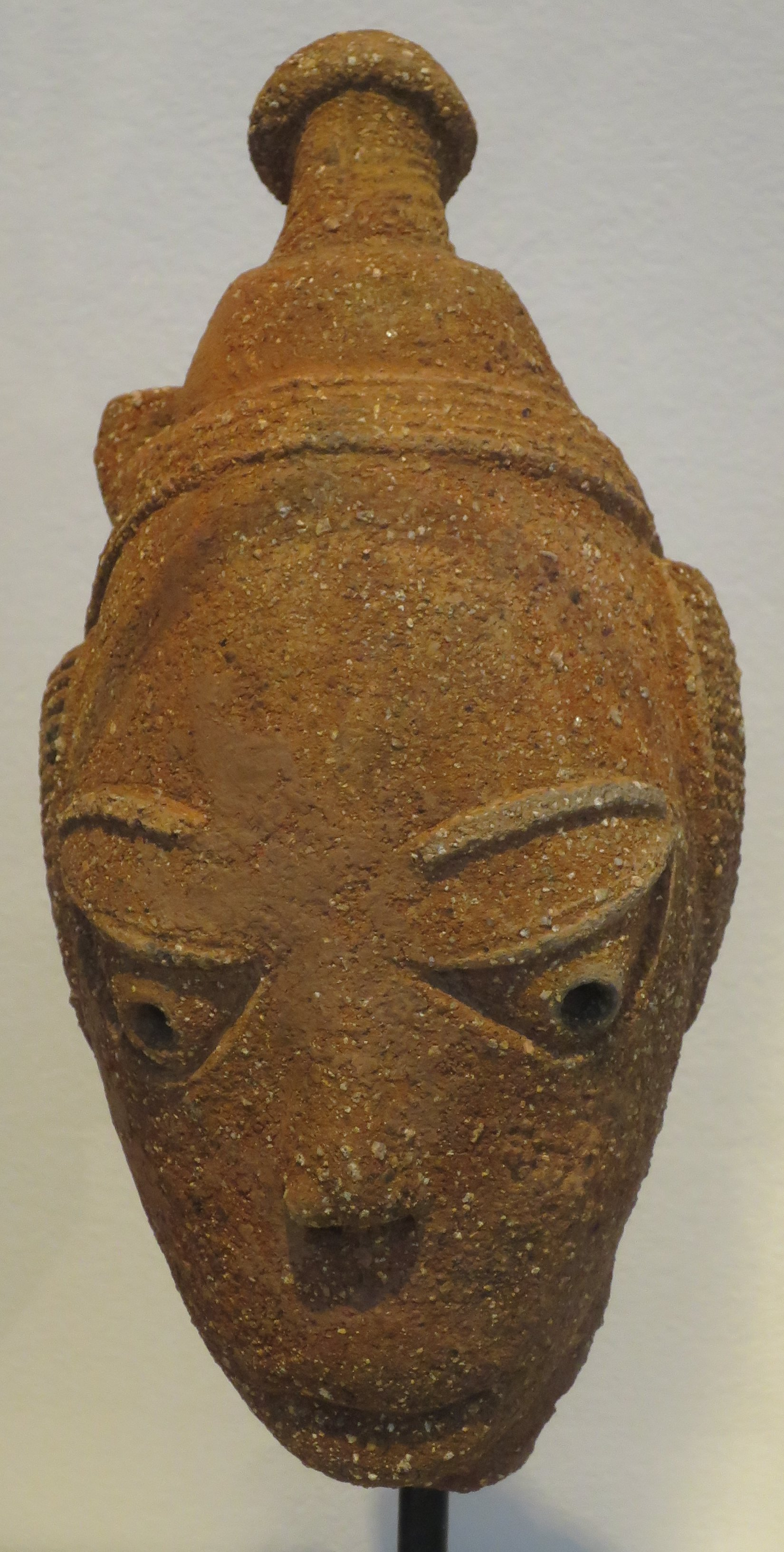 Head, Nok culture, 5th century BCE - 4th century CE, Nigeria, hand-built and carved terracotta, Honolulu Museum of Art, accession 8349.1